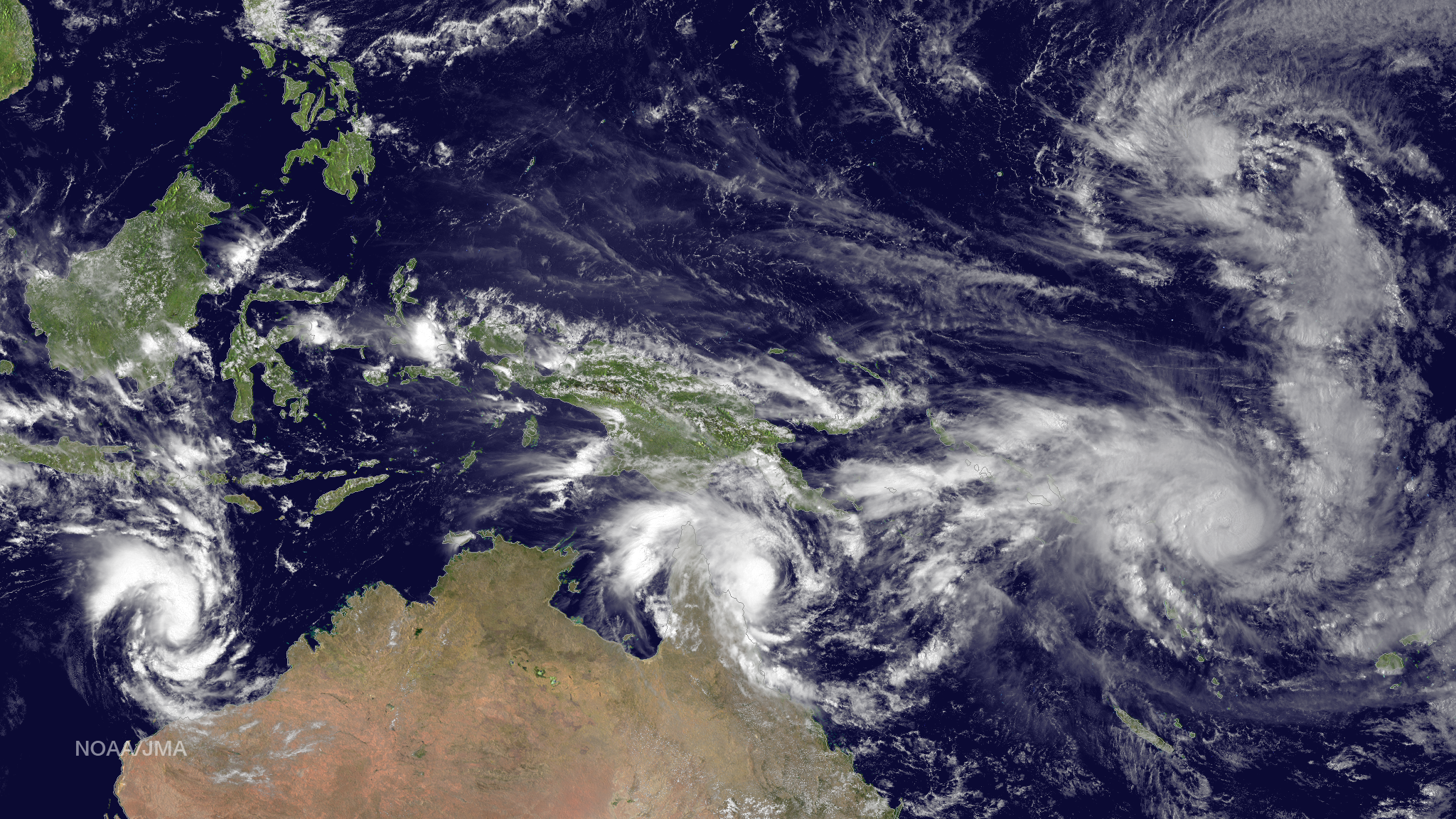 From left to right: Tropical Cyclone Olwyn in the Indian Ocean heads south for landfall near Learmonth on the west coast of Australia, Tropical Cyclone Nathan meanders northeast of Cooktown, Queensland, Australia in the Coral Sea, Tropical Cyclone Pam tracks due south heading for the islands of Vanuatu in the southern Pacific Ocean and Tropical Depression 3 heads west-northwest towards Guam in the northern Pacific Ocean. This image was taken by the JMA MTSAT-2 satellite at 0330Z on March 11, 2015.